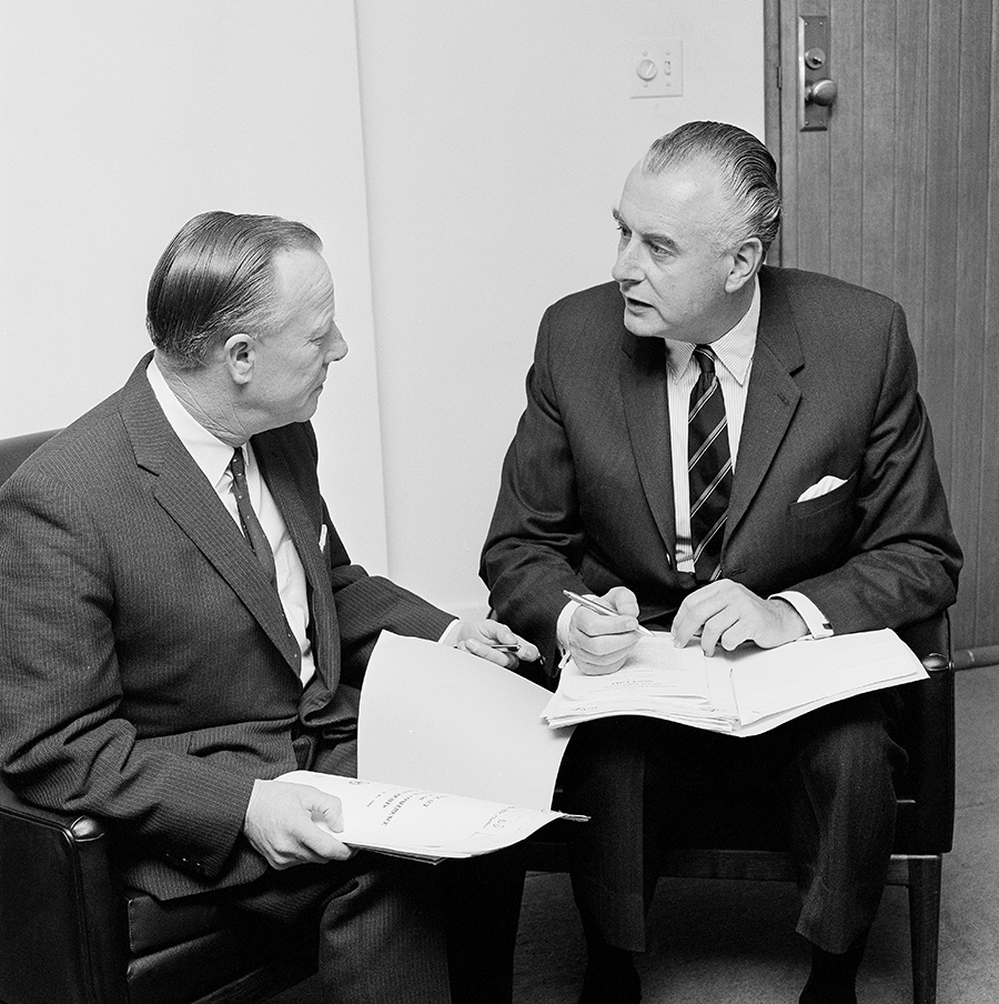 Gough Whitlam and his deputy Lance Barnard at Parliament House, Canberra, in 1969.